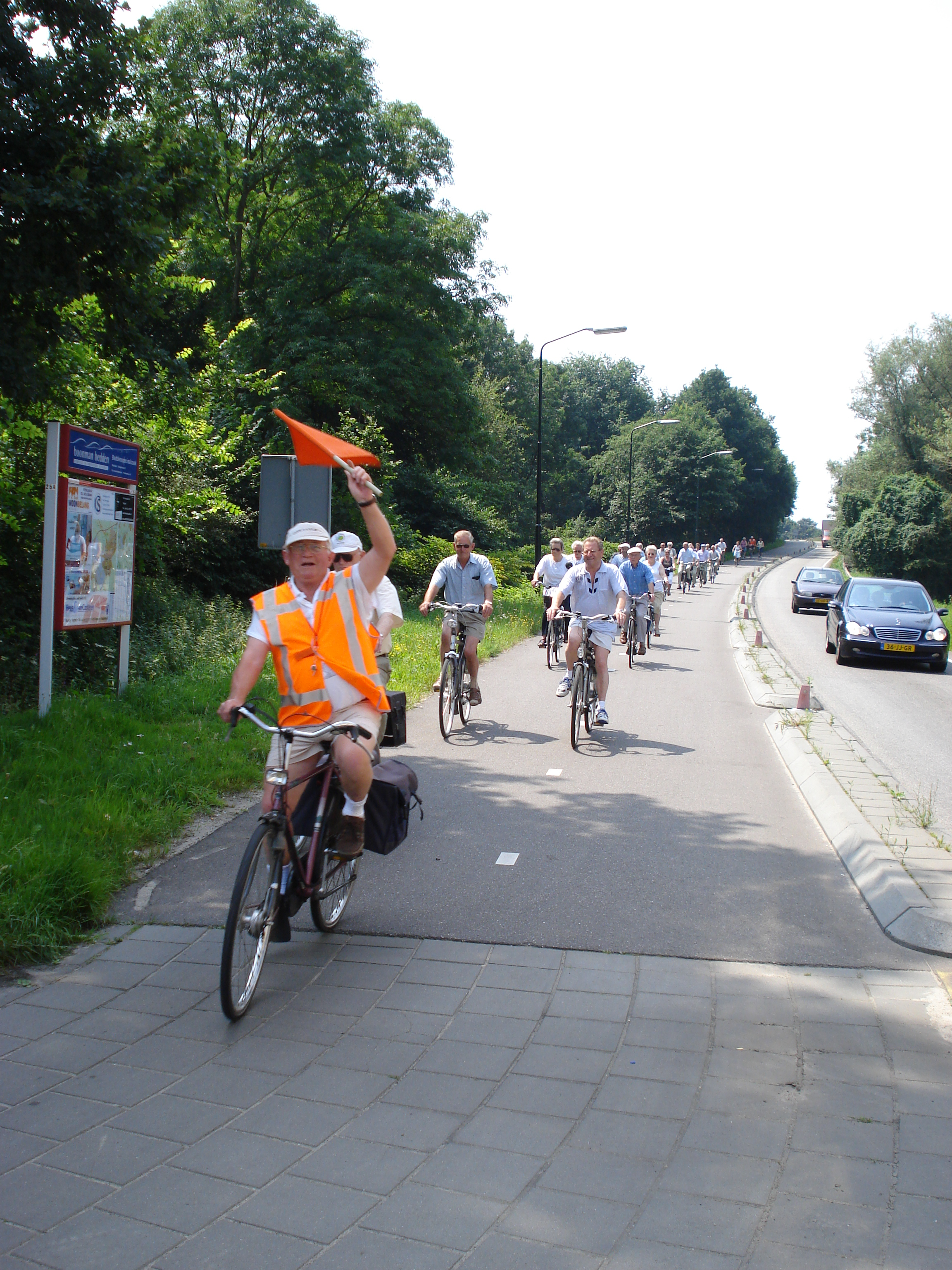 Eerde (N-Br, NL), cyclotourisme.